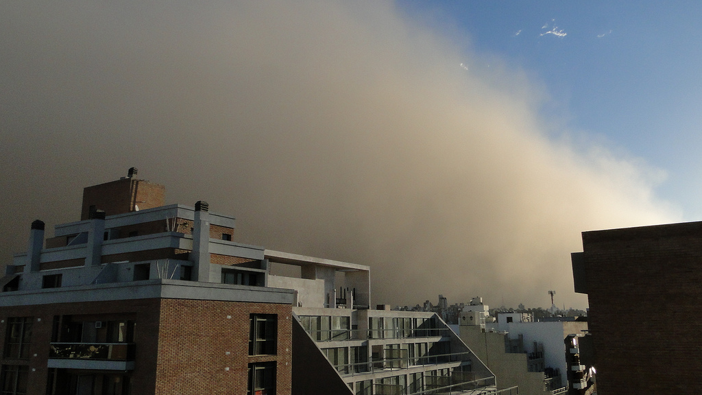 Dust storm. Cordoba, Argentina.